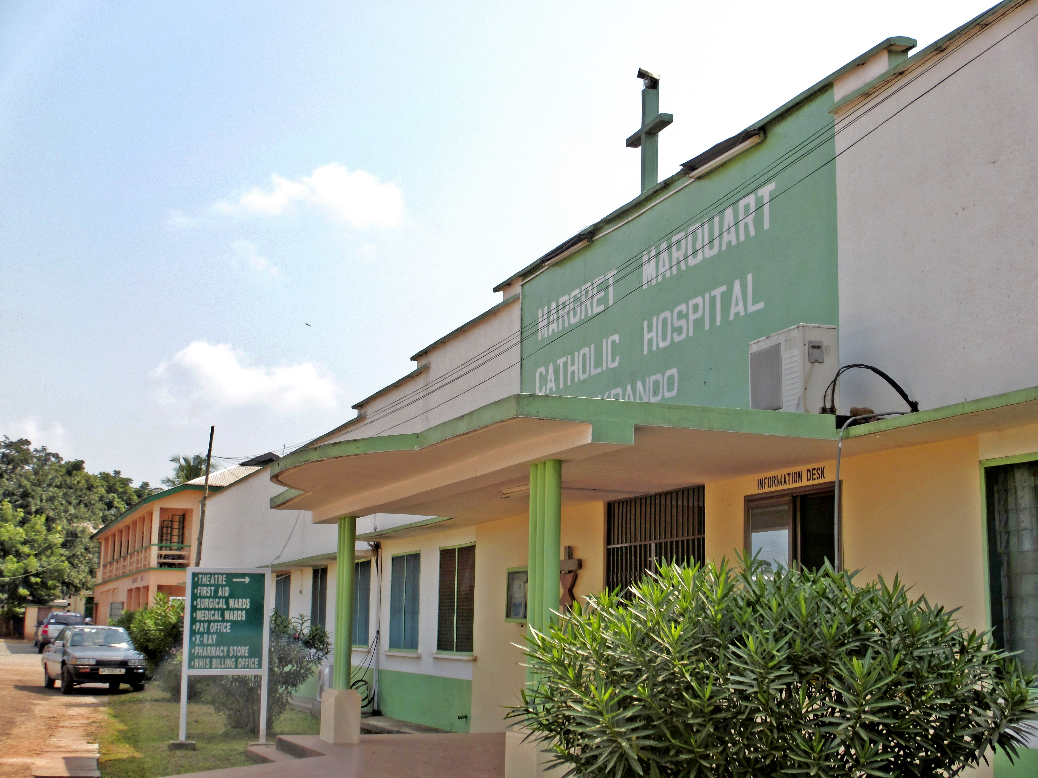 The Margret Marquart Catholic Hospital in Kpando (Volta Region, Ghana).